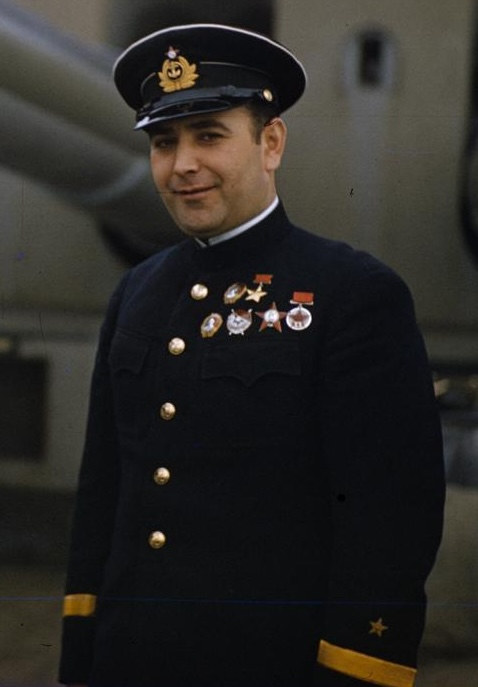 The Commander in Chief Home Fleet on Board HMS King George V, November 1942 The Commander in Chief Home Fleet, Admiral Sir John Tovey with Commodore Egipko, Russian Naval Liaison Officer on board HMS KING GEORGE V.